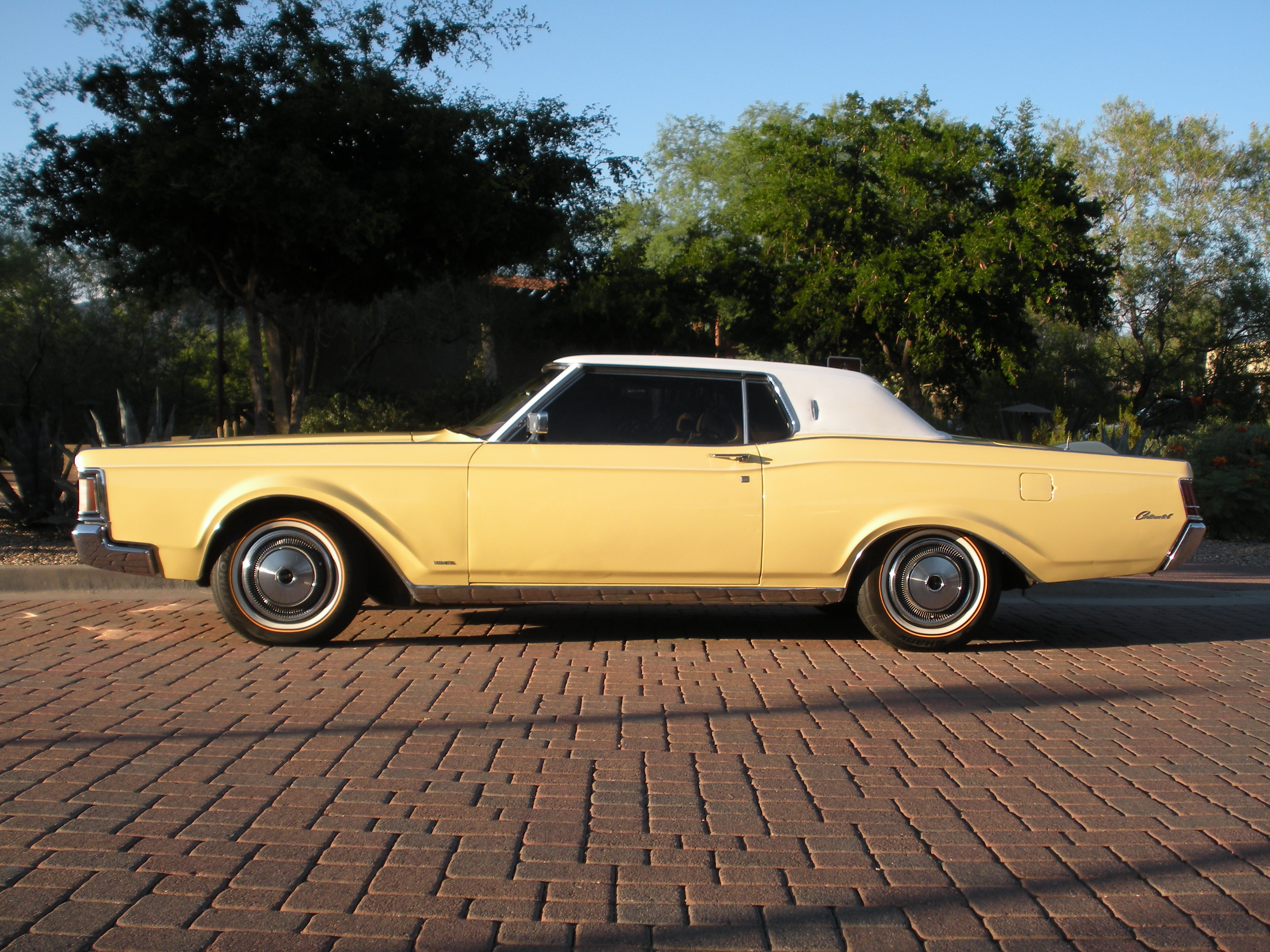 Photo of a 1971 Lincoln Continental Mark III in yellow with white roof.